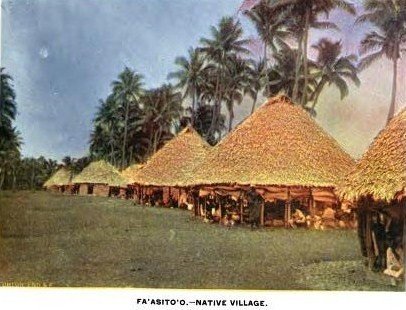 houses in Fasitoo village, Upolu island, Samoa